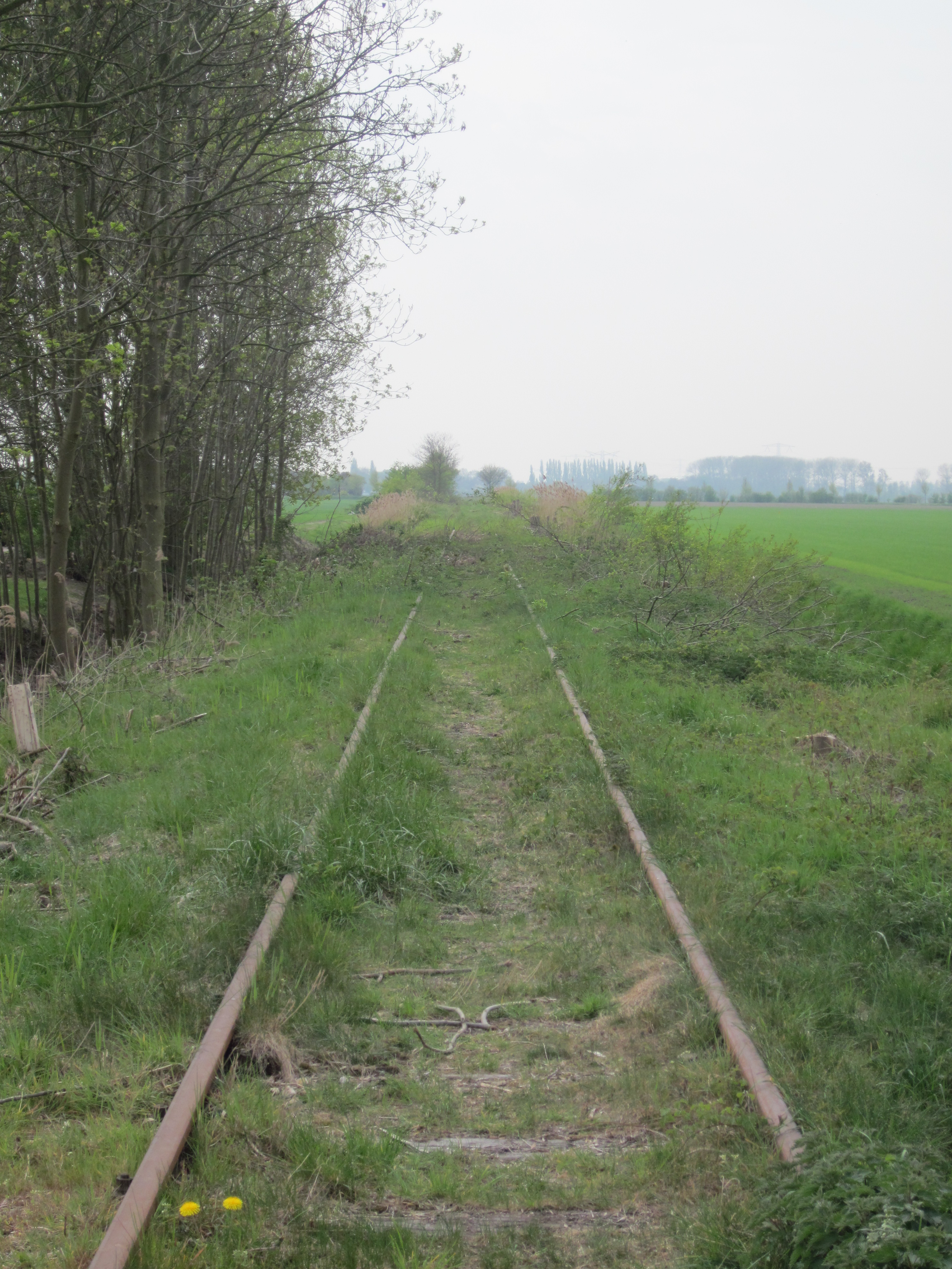 Unused (but not abandoned) railway between Baarland and Oudelande in the province of Zeeland, The Netherlands